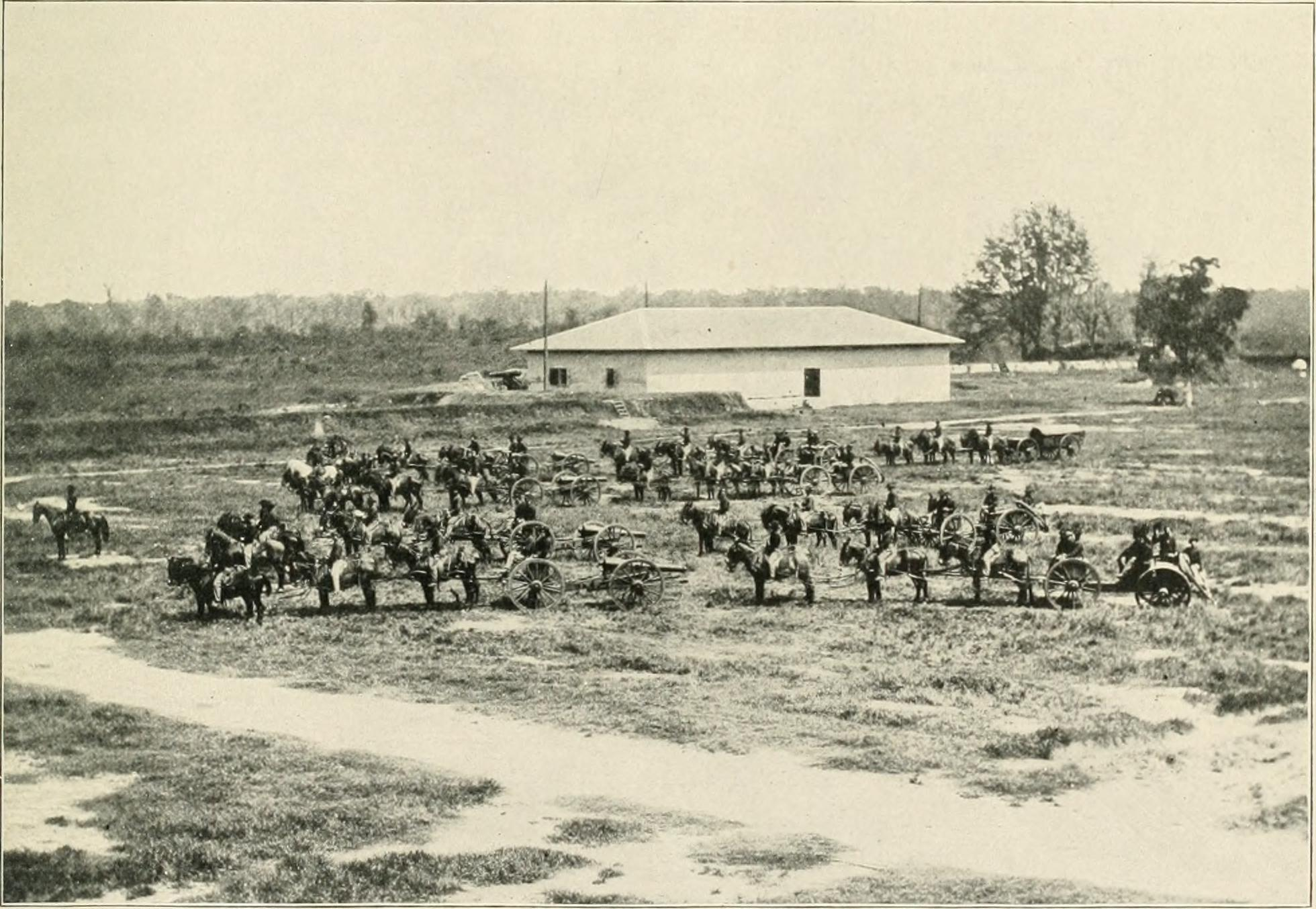 Title: The photographic history of the Civil War : thousands of scenes photographed 1861-65, with text by many special authorities Year: 1911 (1910s) Authors: Miller, Francis Trevelyan, 1877-1959 Lanier, Robert S. (Robert Sampson), 1880- Subjects: United States -- History Civil War, 1861-1865 Pictorial works United States -- History Civil War, 1861-1865 Publisher: New York : Review of Reviews Co. Text Appearing Before Image: COPYRIGHT, 1911, REVIEW OF REVIEWS CO. THE FIRST INDIANA HEAVY ARTILLERY AT BATON ROUGE Text Appearing After Image: COPYRIGHT, 1911, REVIEW Of REVIEWS CO. PHOTOGRAPHS THAT FURNISHED VALUABLE SECRET-SERVICE INFORMATION TO THE CONFEDERATES The clearest anil most trustworthy evidence of an opponents strength is of course an actual photograph. Such evidence, inspite of the early stage of the art and the difficulty of running in chemical supplies on orders to trade, was supplied the Con-federate leaders in the Southwest by Lytle, the Baton Rouge photographer—really a member of the Confederate secret service.Here are photographs of the First Indiana Heavy Artillery (formerly the Twenty-first Indiana Infantry), showing its strengthand position on the arsenal grounds at Baton Rouge. As the Twenty-first Indiana, the regiment had been at Baton Rouge duringthe first Federal occupation, and after the fall of Port Hudson it returned there for garrison duty. Little did its officers suspect thatthe quiet man photographing the batteries at drill was about to convey the information beyond their lines to their opp